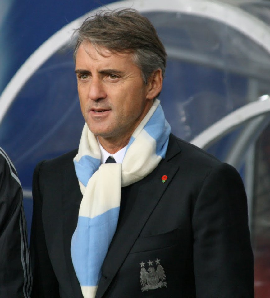 Roberto Mancini Lech Poznań vs Manchester City FC, 4 November, 2010